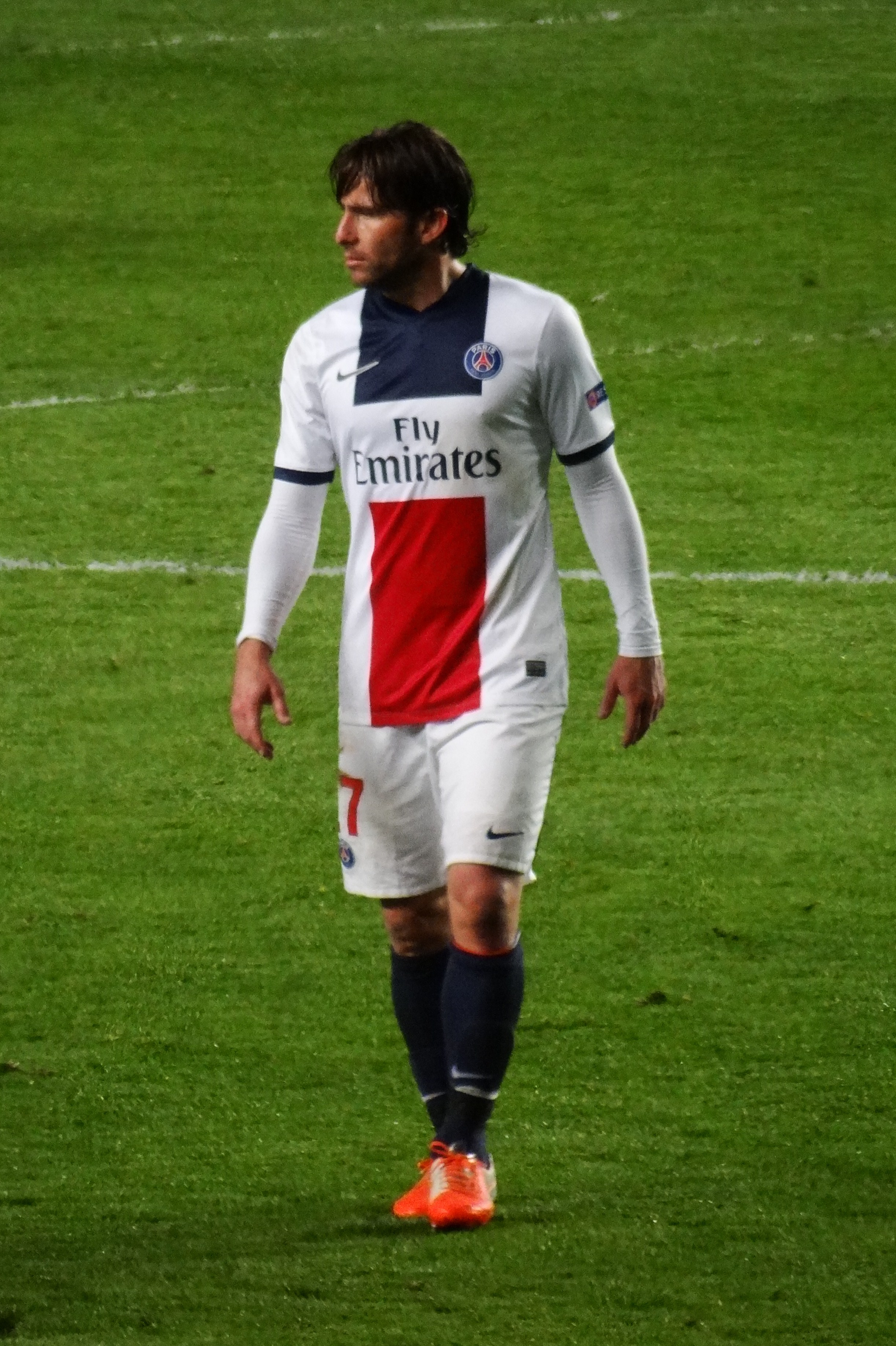 Chelsea FC v Paris Saint-Germain, 8 April 2014, Stamford Bridge, London.